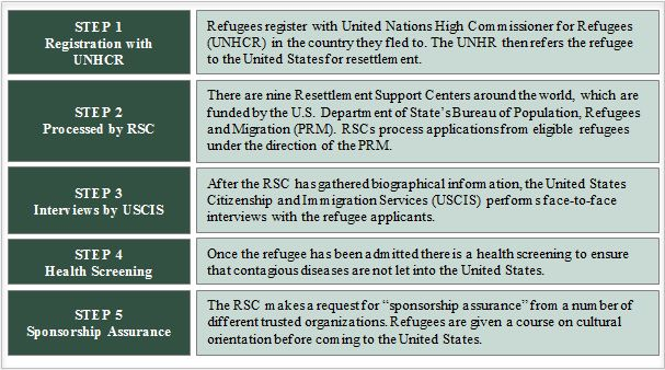 Refugee Asylum Steps - U.S.